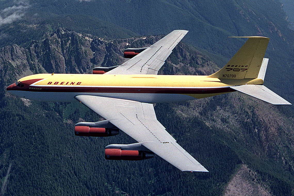 Dash 80 air to air photo, showing the aircraft passing over the Olympic Peninsula with Lake Cushman, Puget Sound and Mt. Rainier in the background. By Joe Parke